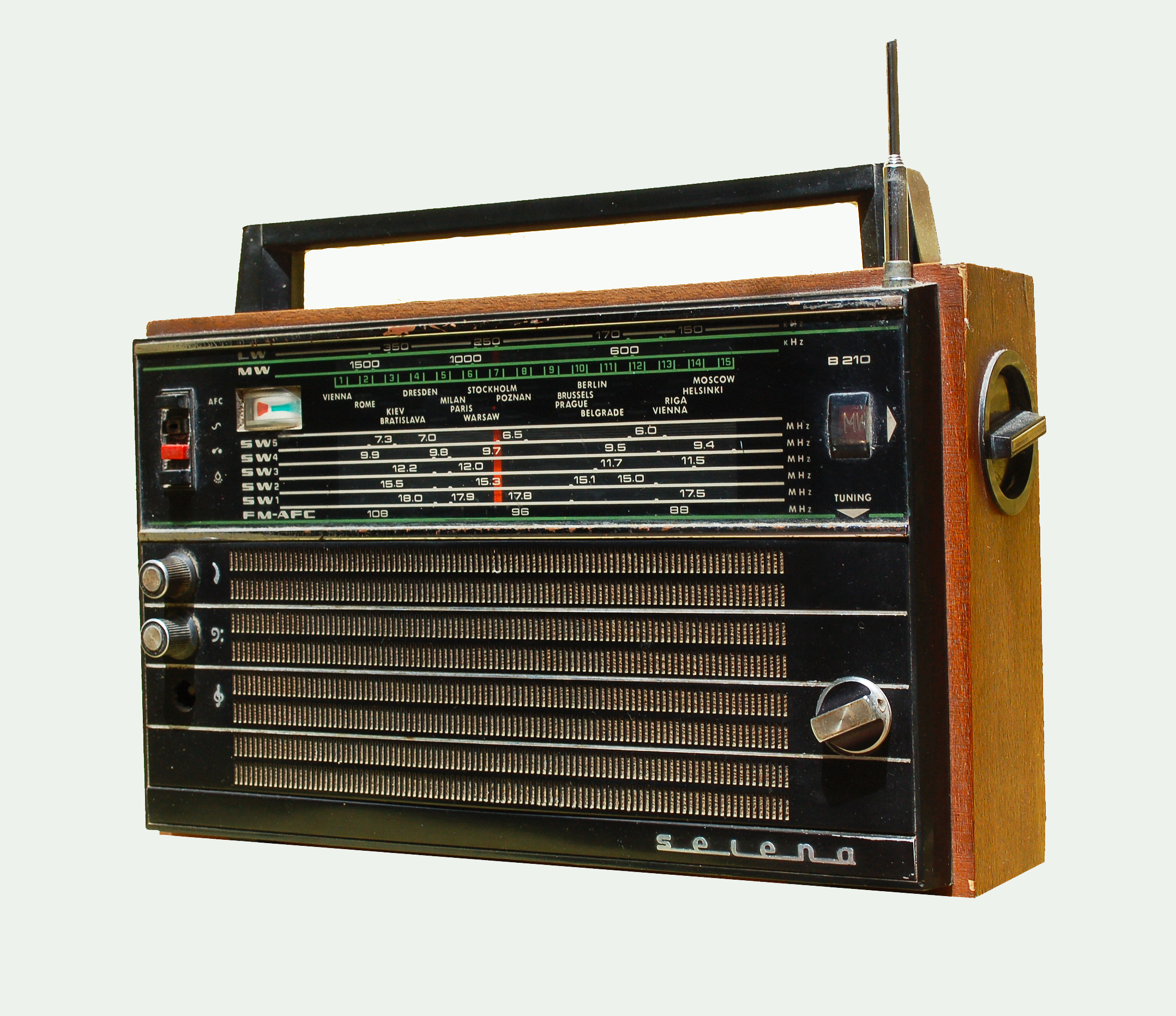 An old Radio Selena Model B-210